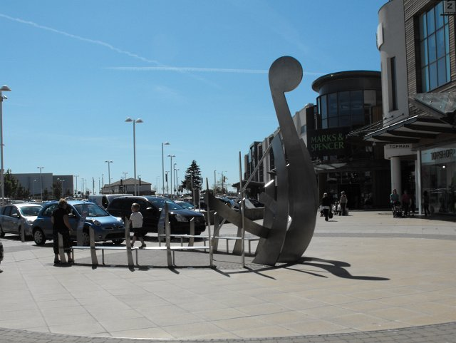 Sundial seat at Westwood Cross Great weather to check the time on the sundial (it agreed with my camera clock, also set to GMT) but a bit hot to sit on the stainless steel seats. and